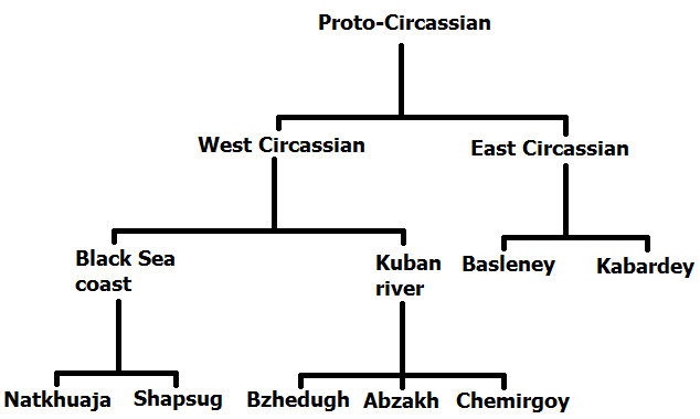 The Circassian dialects family tree